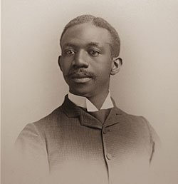 Clement G. Morgan, Harvard class album, 1890.